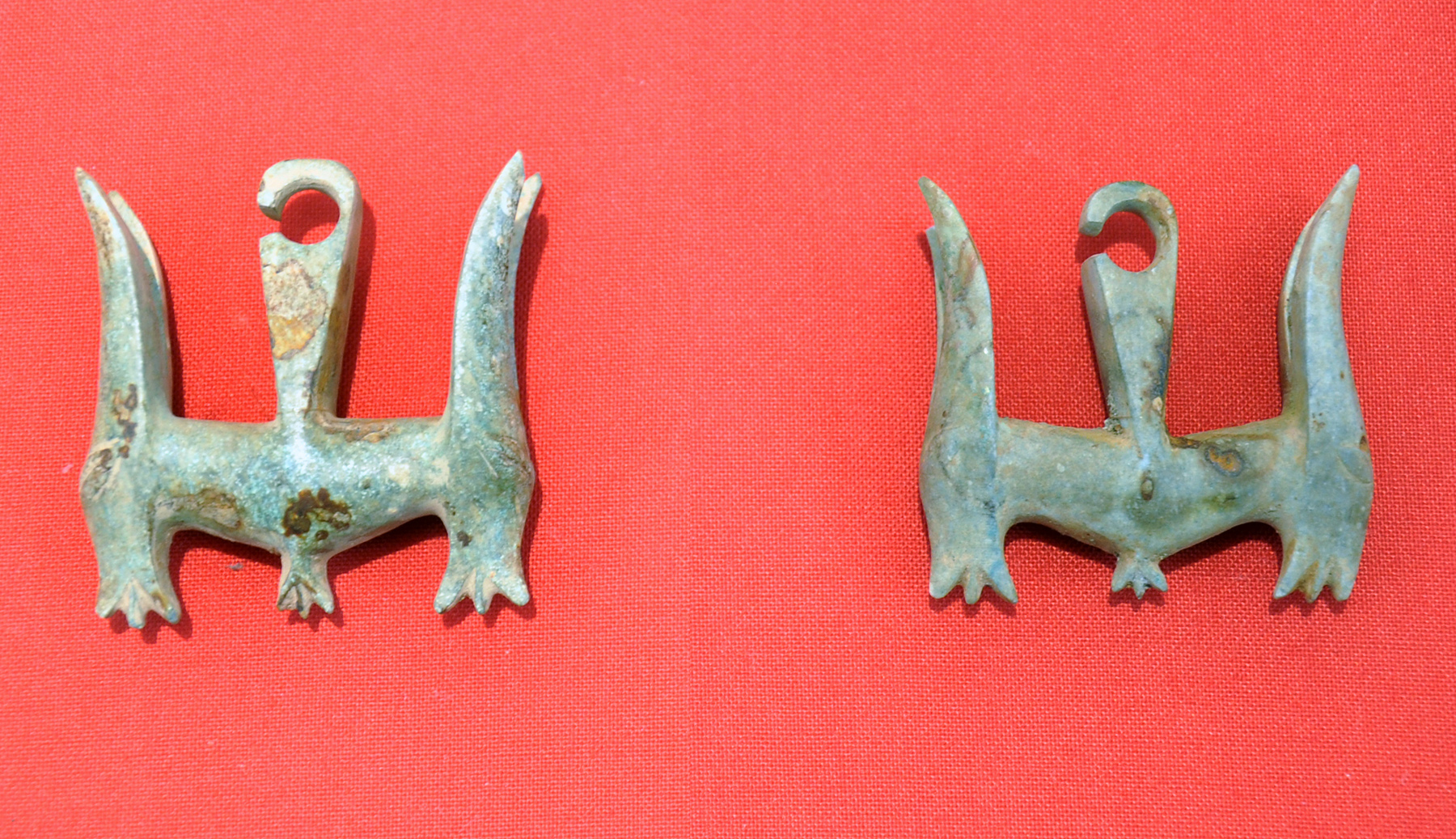 Earrings, Sa Huynh culture ( 3rd century BC - 1st century AC), Vietnam, nephrite. Royal Museums of Art and History (MRAH), Jubilee Park, Brussels.